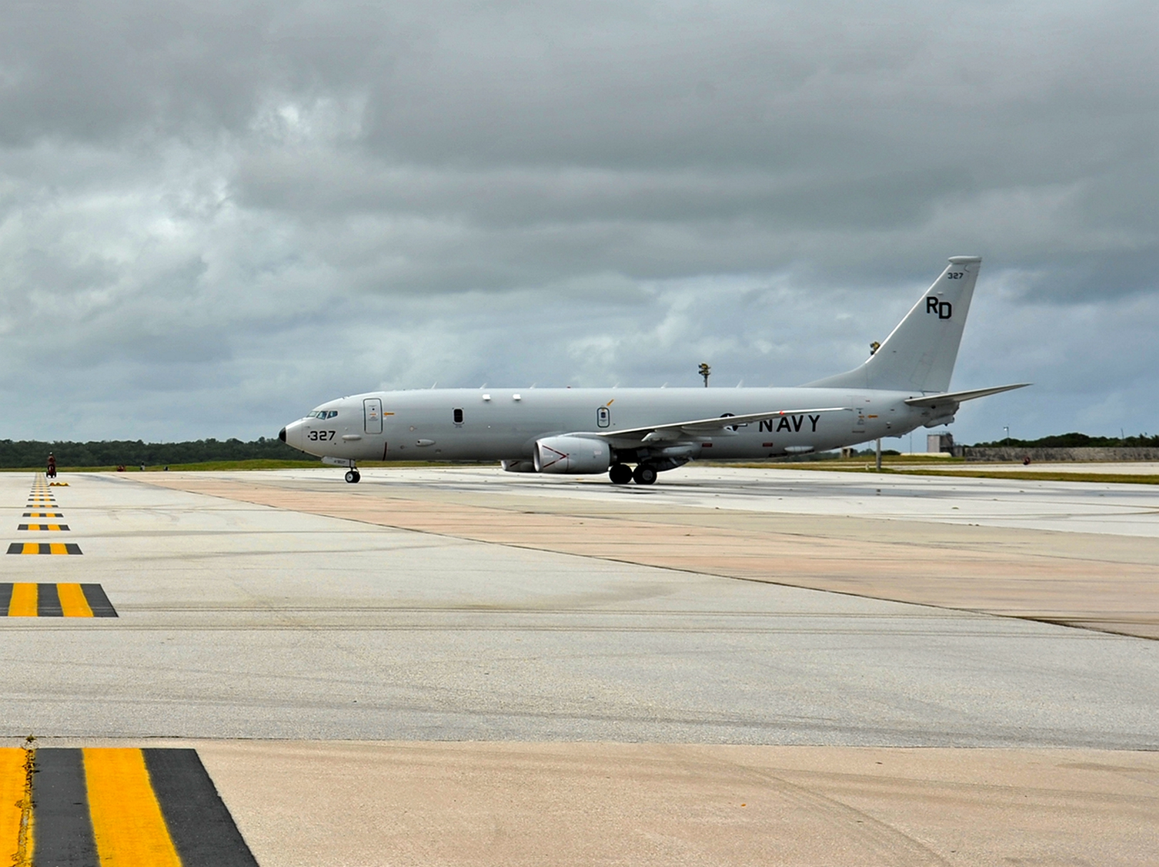 U.S. Navy Airman Joseph Harding, guides a Boeing P-8A Poseidon of Patrol Squadron 47 (VP-47) "Golden Swordsmen" to park at Andersen Air Force Base, Guam (USA), following flight operations. The aircraft took part in exercise "Sea Dragon", an annual, multilateral exercise that stresses coordinated anti-submarine warfare prosecution against both simulated and live targets.